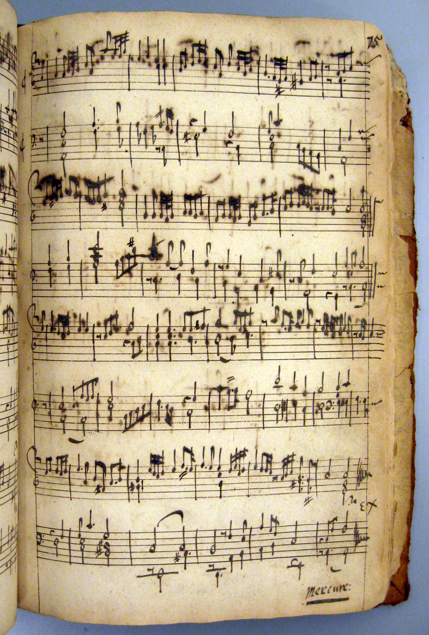 Allmaine by a composer identified as Mercure - found in the manuscript Drexel 5611